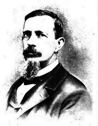 Samuel S. Harrell (January 18, 1837, Fairfield township, Franklin County, Indiana - Aprili 26, 1903), politician, lawyer, teacher